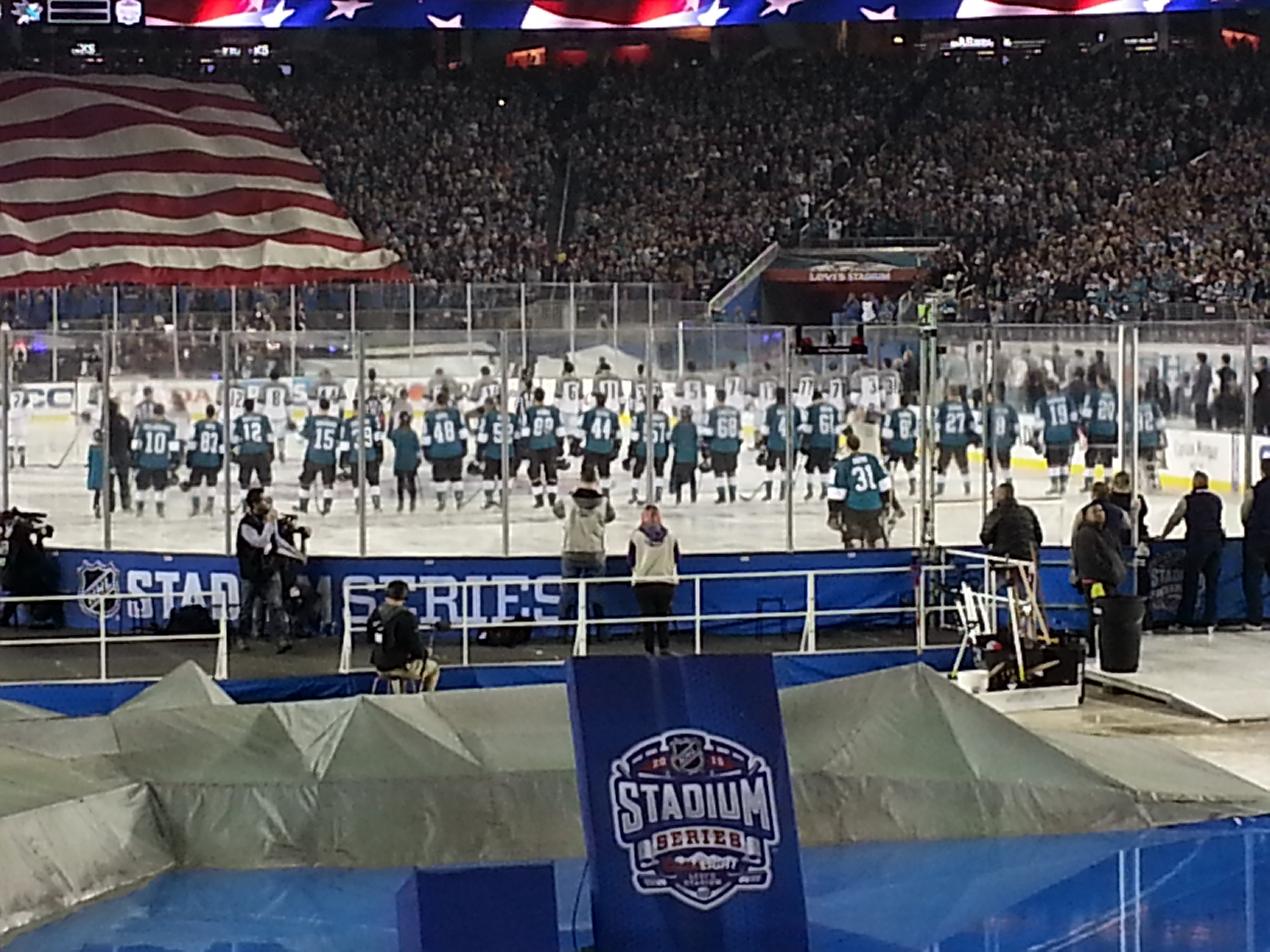 Players from the Los Angeles Kings and San Jose Sharks on the ice during the United States Nation Anthem at the 2015 NHL Stadium Series game at Levi's Stadium in Santa Clara, CA